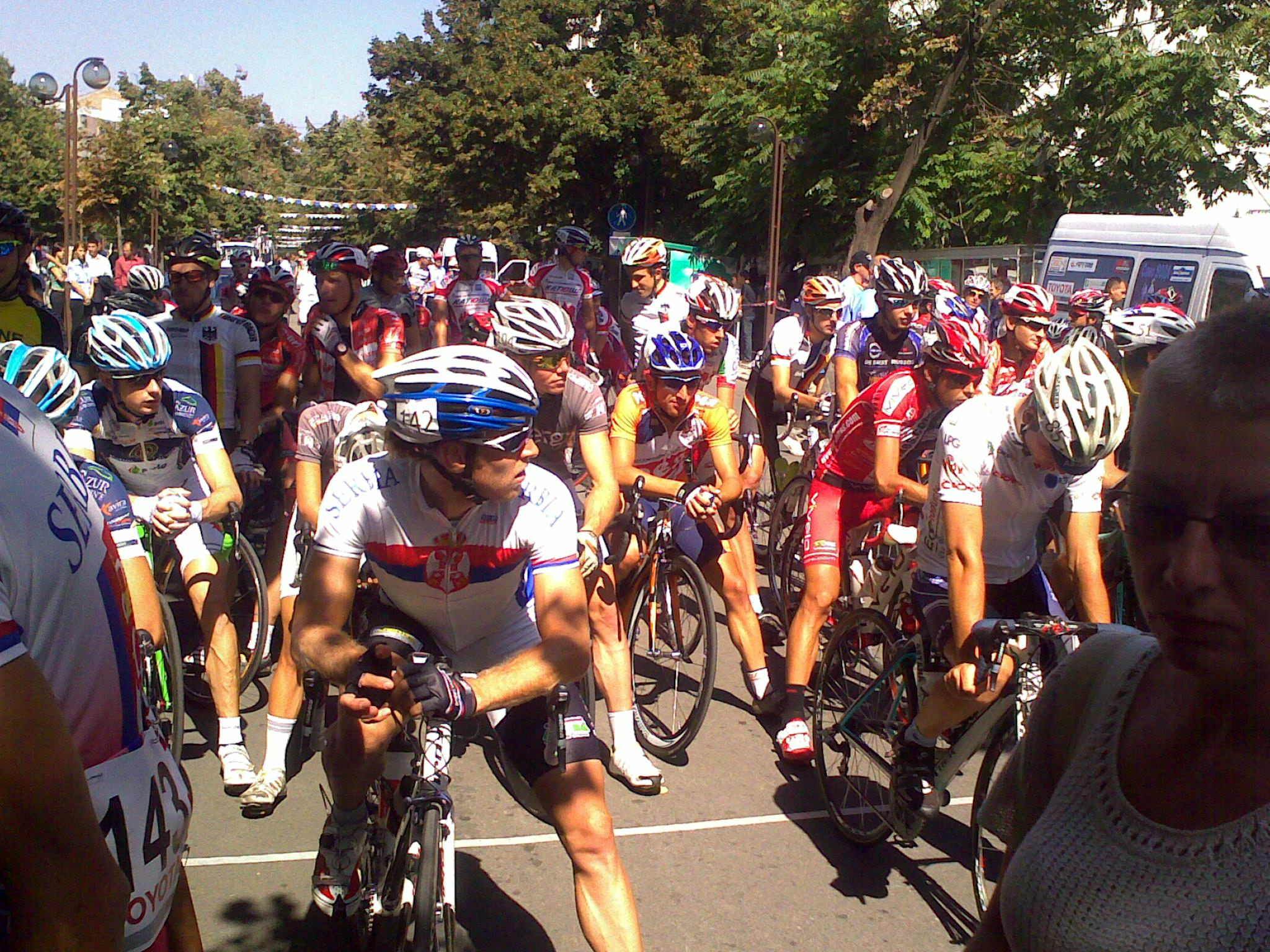 The Tour of Bulgaria 2010 in Burgas